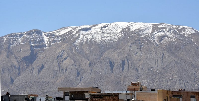 نمای شمالی کوه دراک از شهرک گلستان در اوایل فروردین ۱۳۹۱